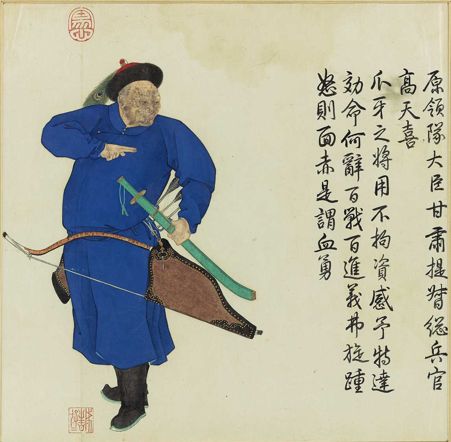 Gao Tianxi (高天喜 gao tian xi ) died 1758, a Dzungar officer of the Qing Army.